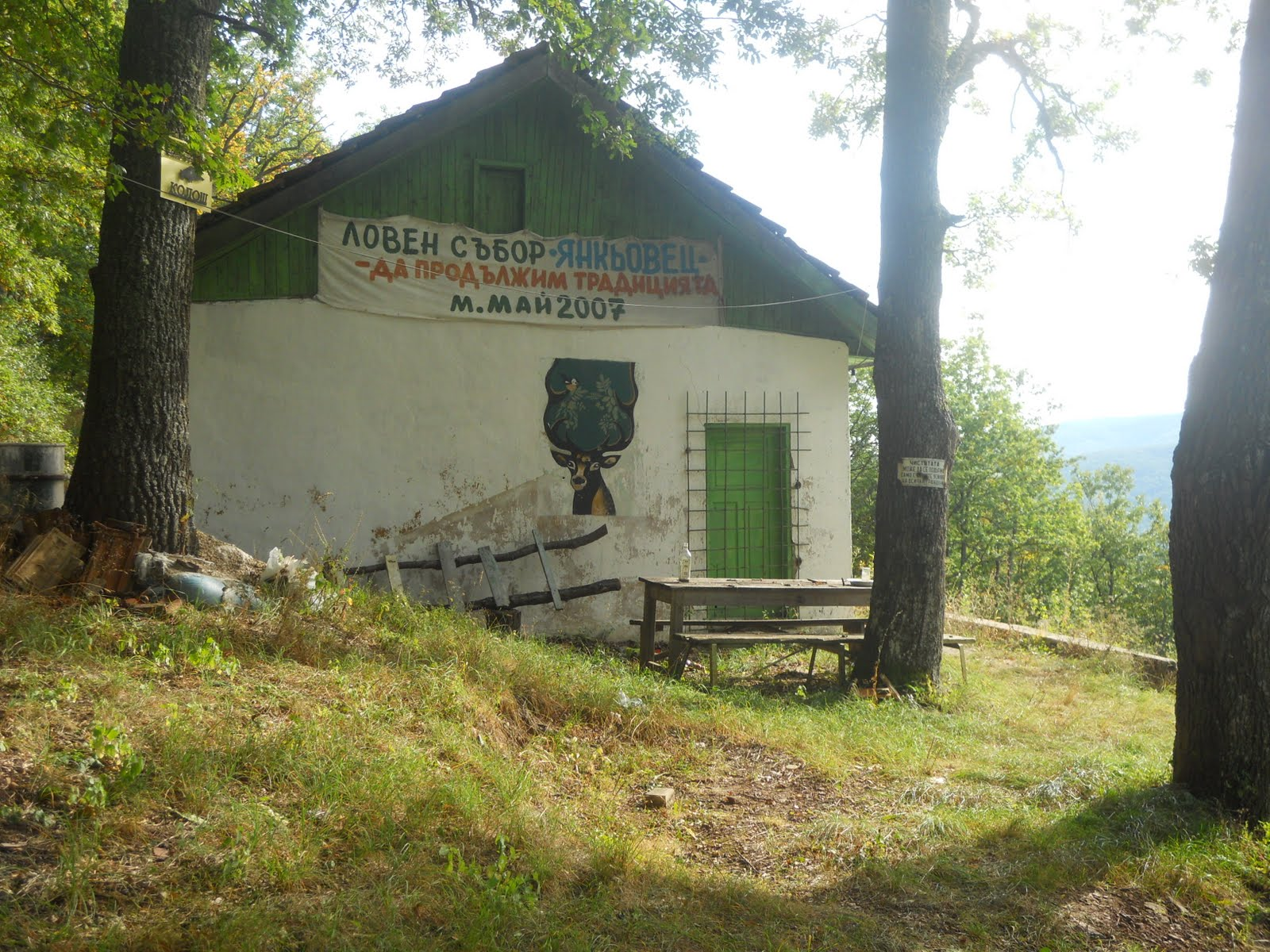 хижата на селото